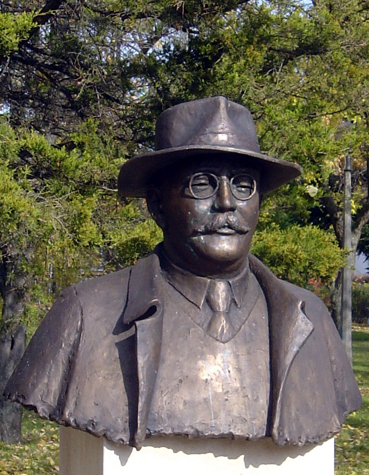 Imre NAGY, Prime Minister of Hungary in 1956